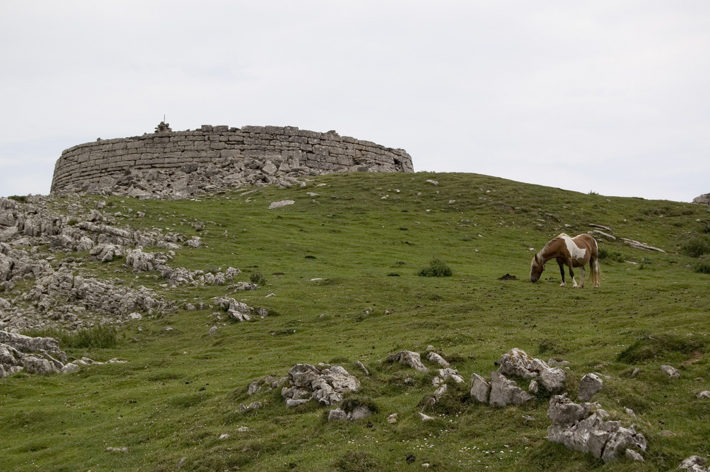 Roman commemorative tower of Urkulu Mountain, Navarre, Spain.